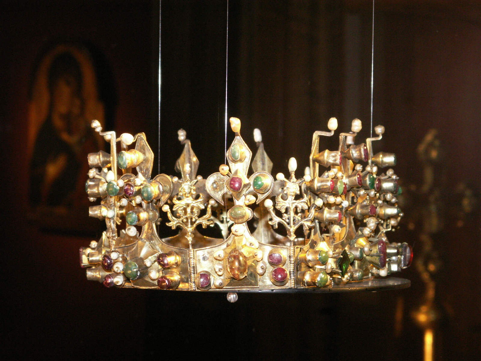 Crown of Elizabeth Kotromanic in Zadar, given by Louis I of Hungary